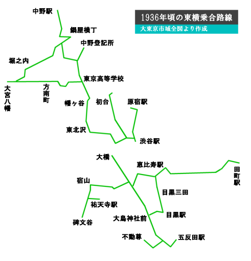 route of Toyoko noriai bus in 1936